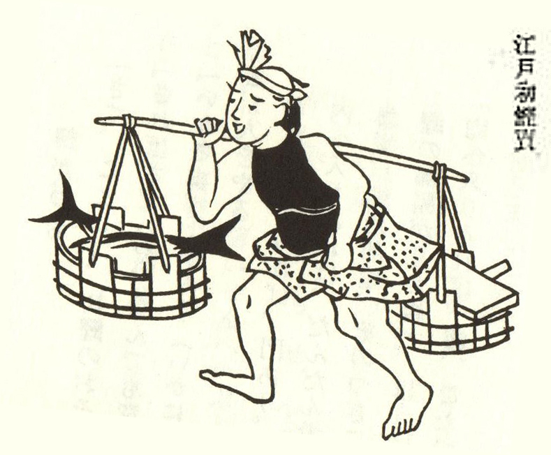 A picture of fresh fish seller at japanese edo period.